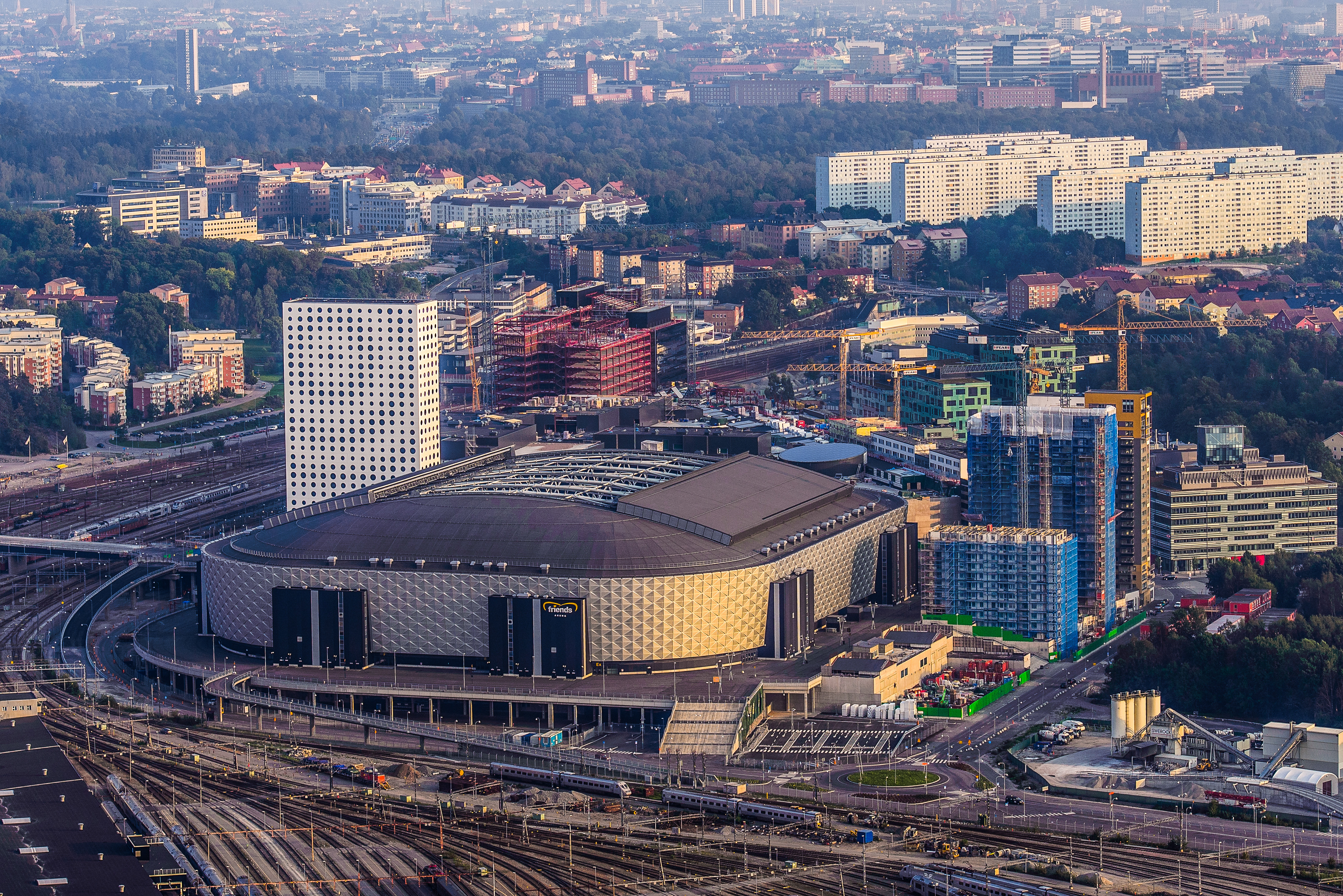 Arenastaden and Friends arena.